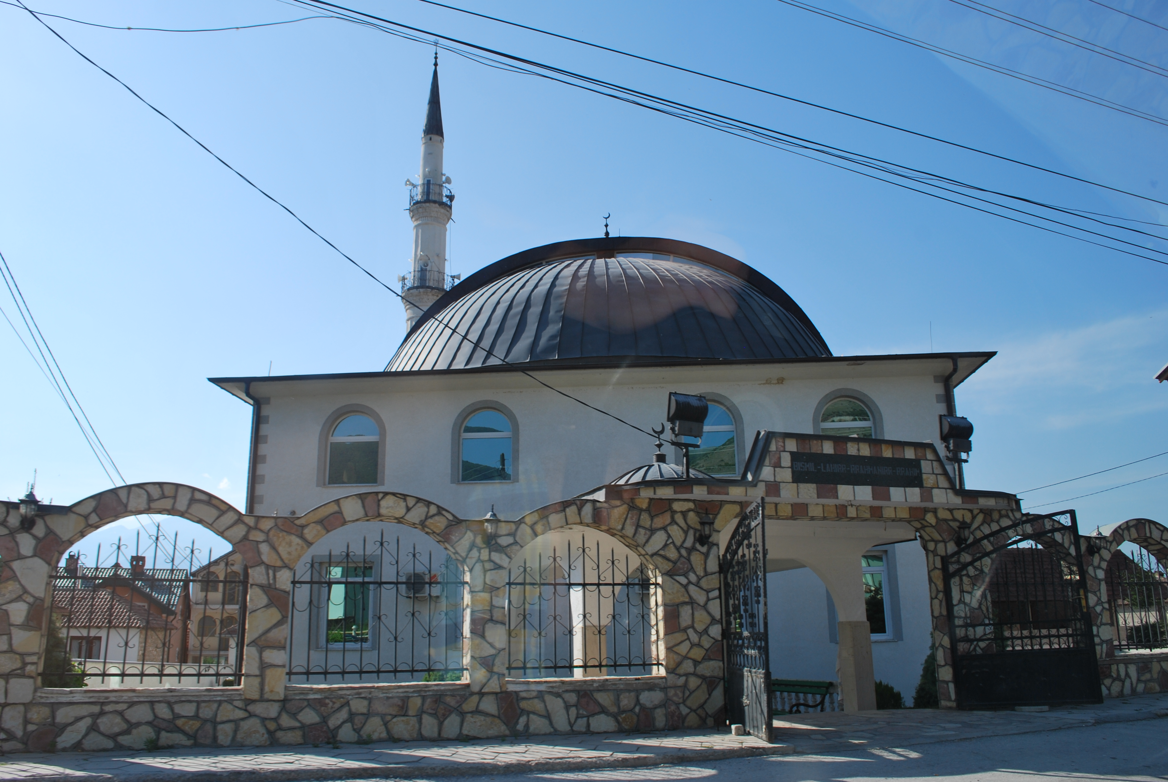 Čegrane near Gostivar, Macedonia